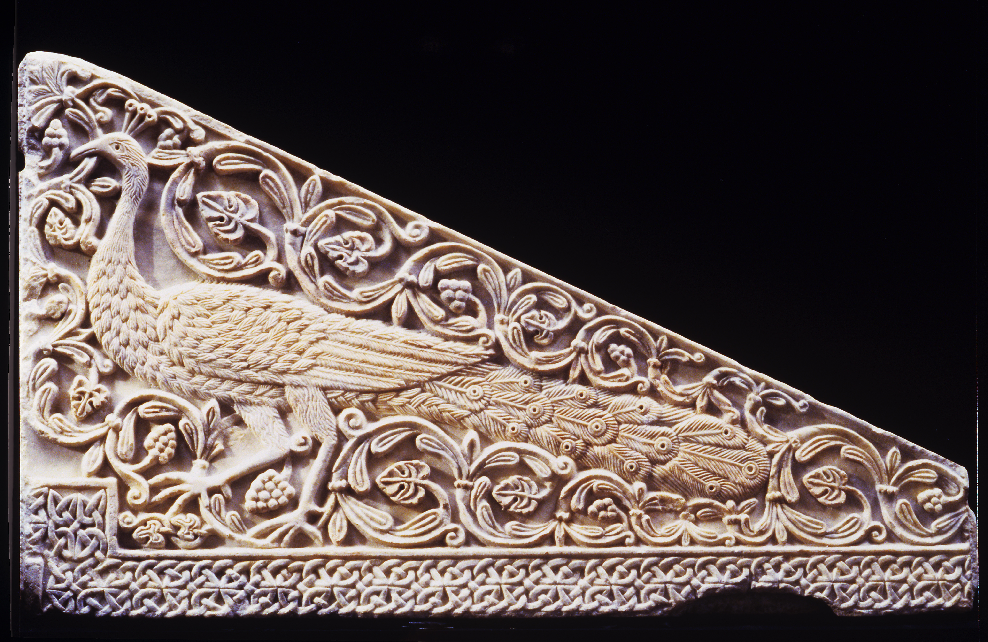 Church of San Salvatore, detail of the stuccoes